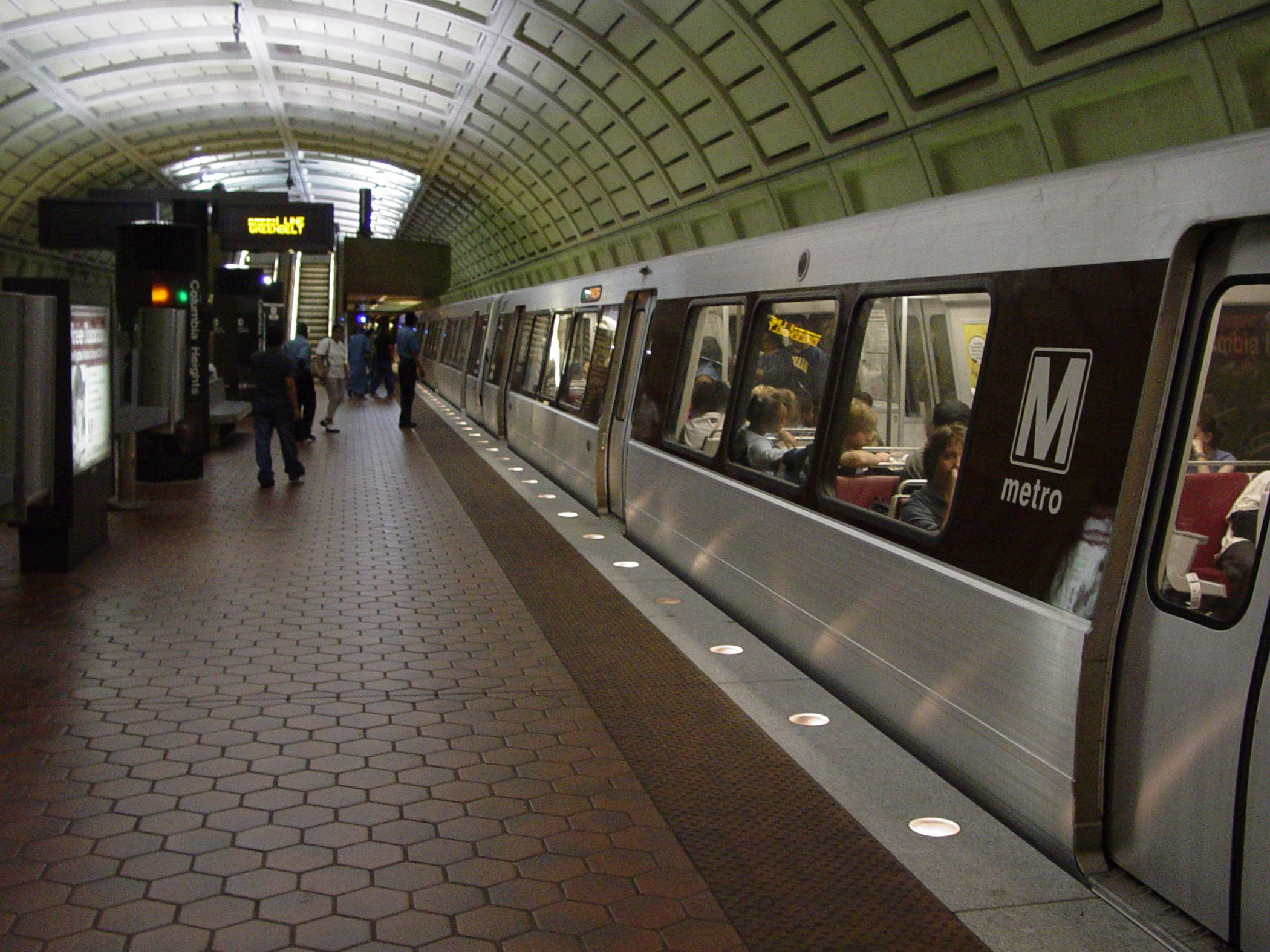 Columbia Heights Metro station